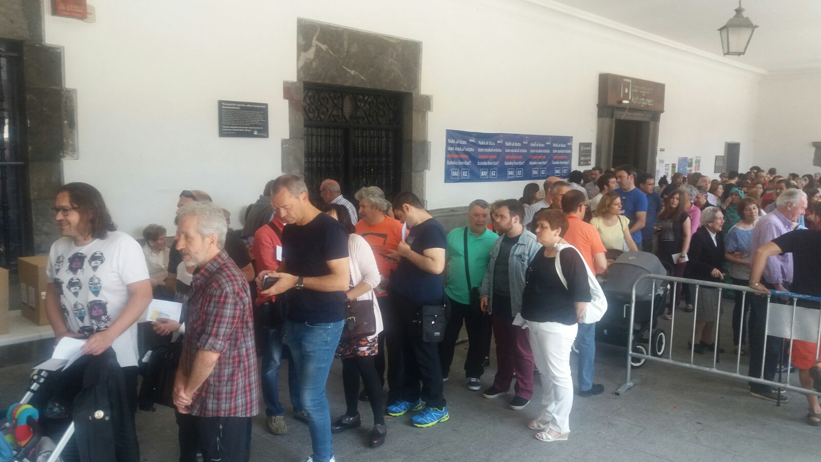 Referendum about independence in Azpeitia (June 2016)